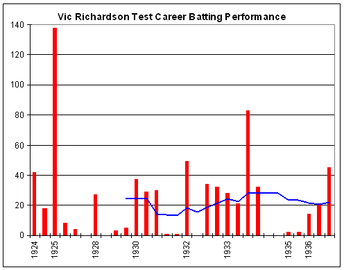 Test batting chart of Vic Richardson. Red columns are the runs in the innings. Blue dots indicate not outs. Blue line is average in the last ten innings. Thanks to Raven4x4x for providing the template.